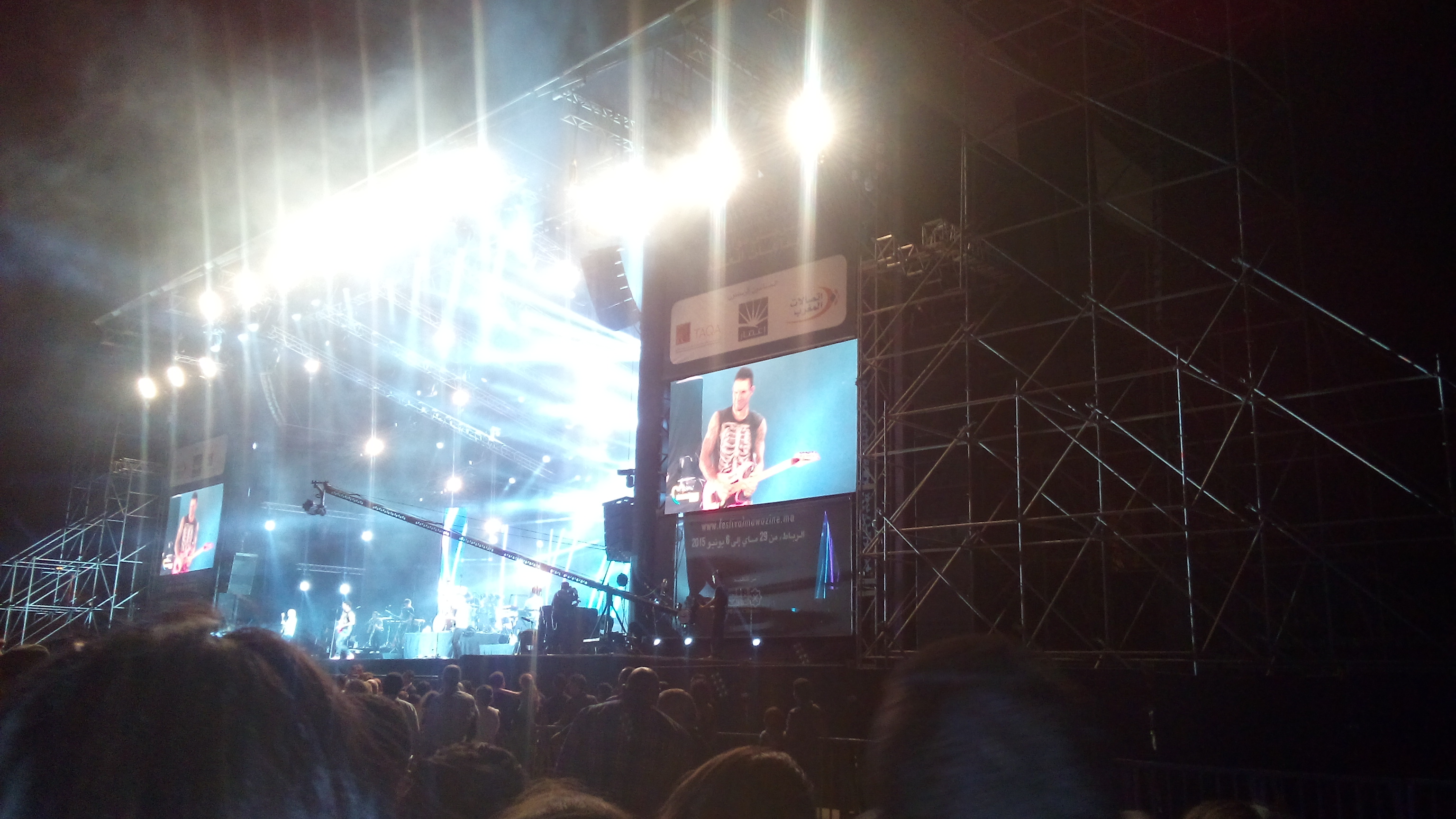 Maroon5 at rabat 2015